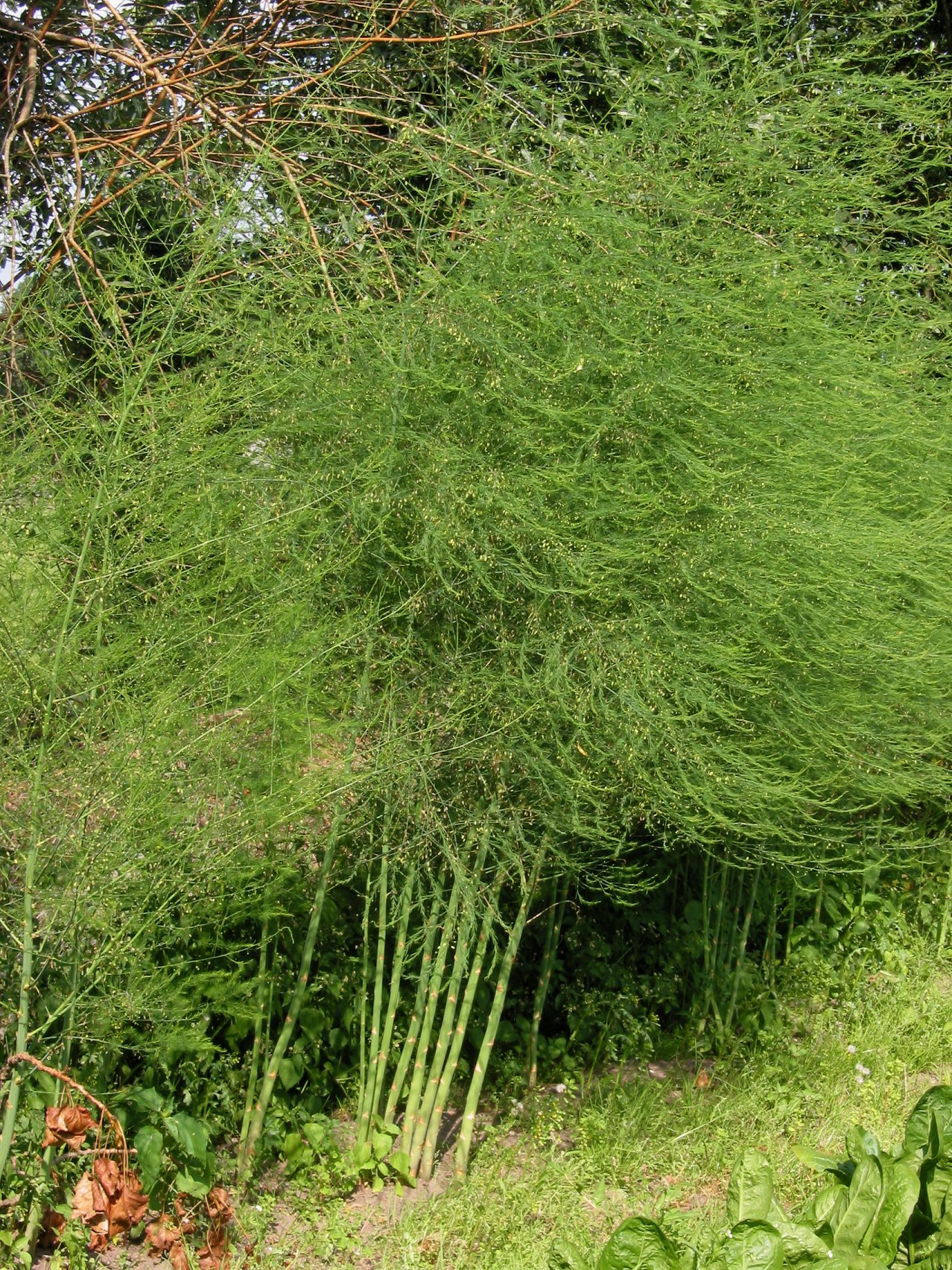 (nl: Asperge planten) Asparagus officinalis